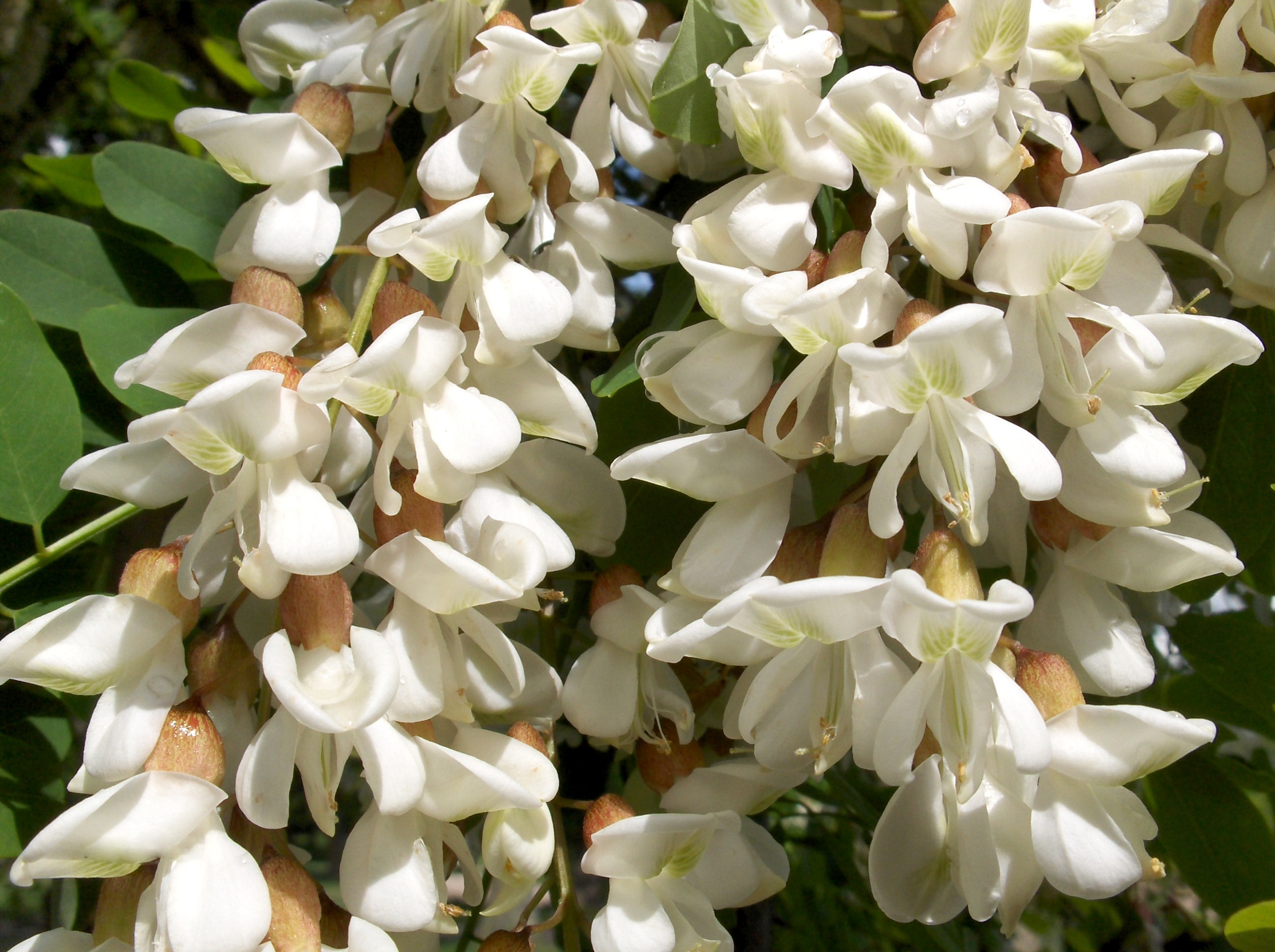 Robinia flowers, Upper Rhine valley